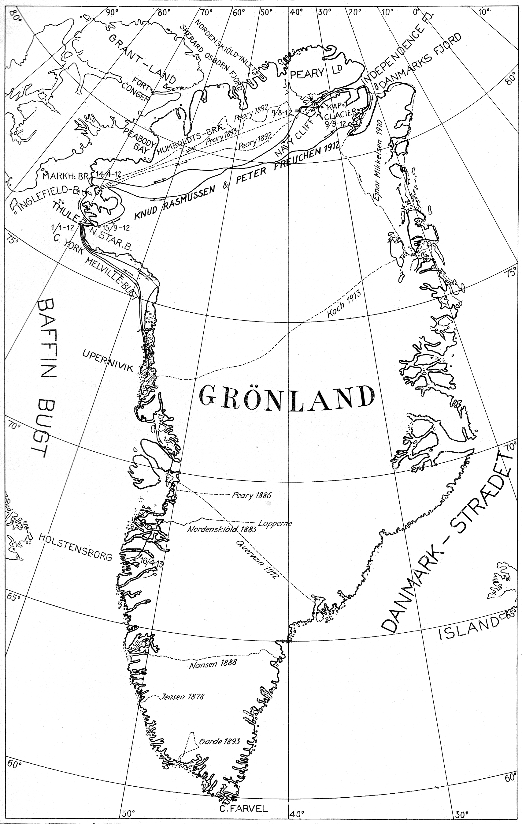 Map of Greenland with routes of crossings until 1913